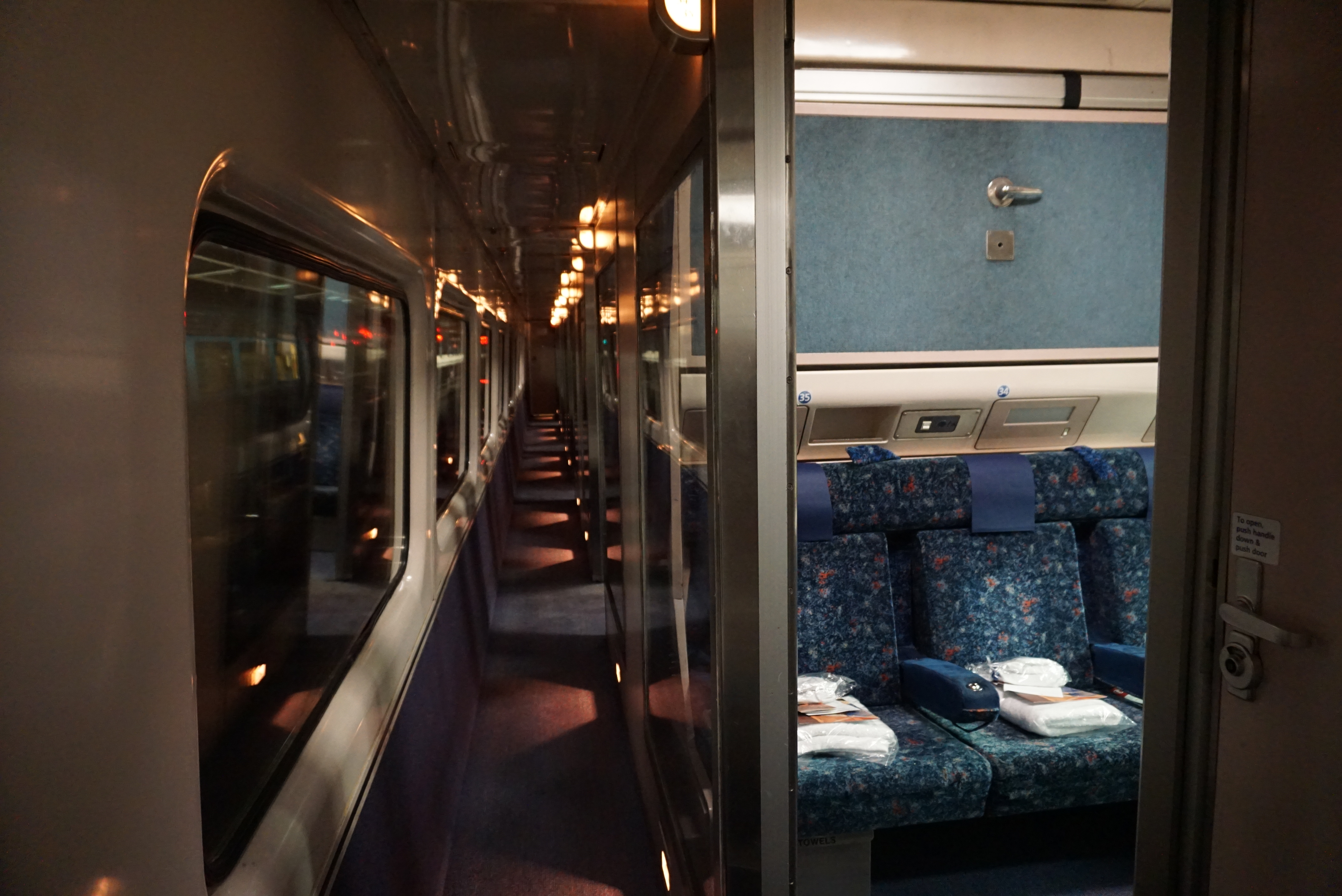 Inside sleeper car on XPT train